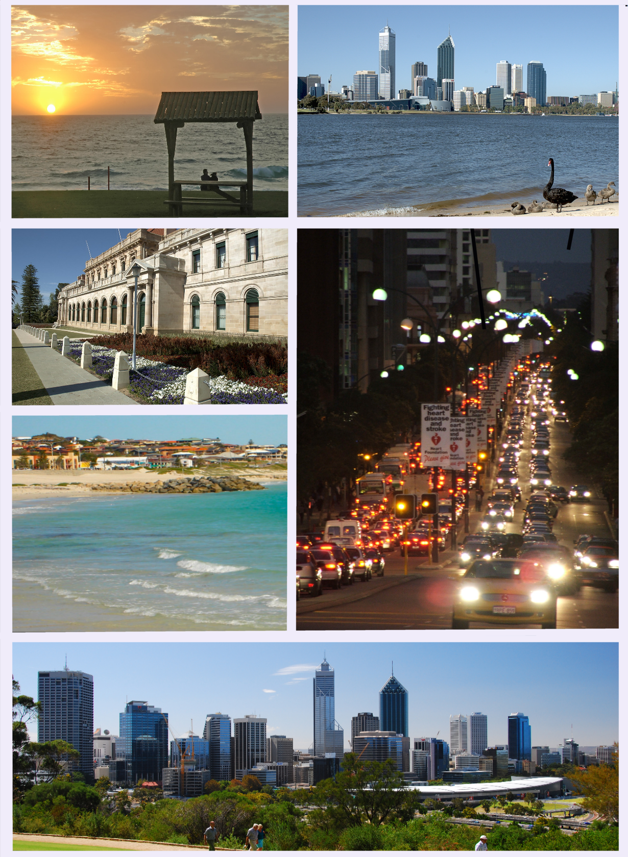 A montage of images of Perth, Western Australia. It contains the following images (clockwise from top-left): File:Beach sunset Perth.jpg File:Swan River,Perth,Western Australia.jpg File:Gridlock perth.jpg File:Perth skyline.jpg File:Sorrento Beach 1.jpg File:Parliament House, Perth, Western Australia.jpg